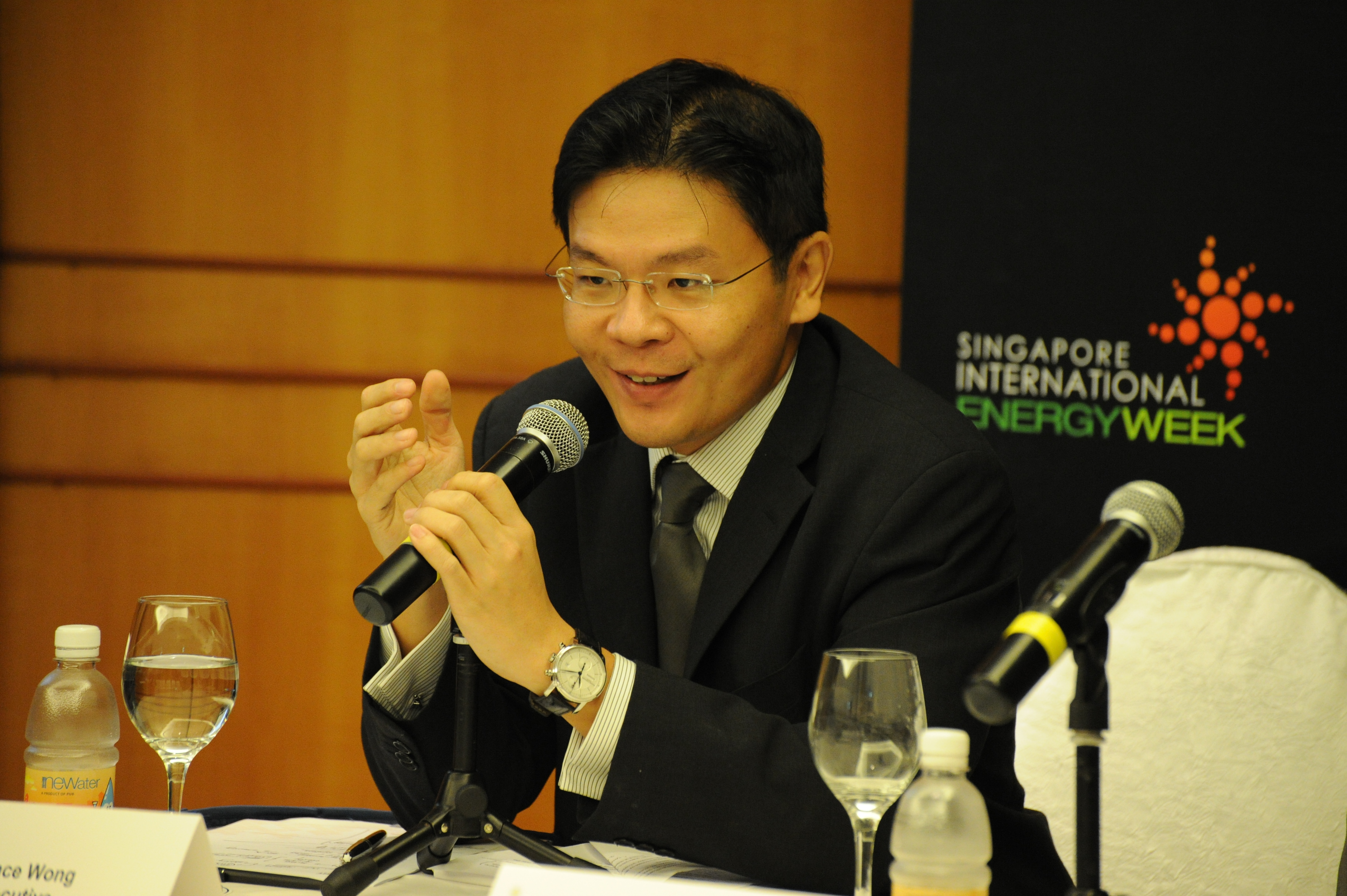 Singaporean Member of Parliament Lawrence Wong speaking at the Singapore International Energy Week conference.